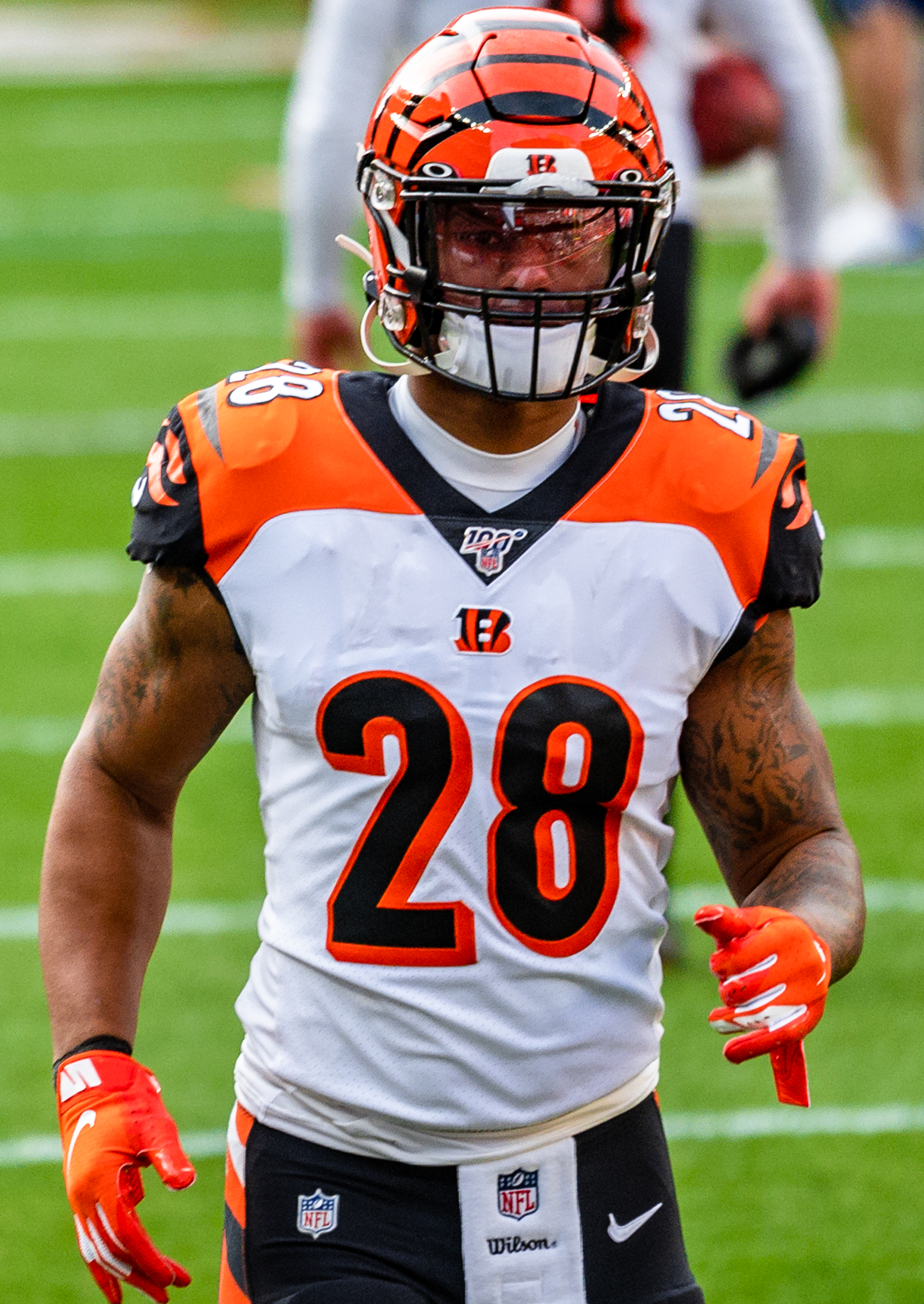 Cleveland Browns vs. Cincinnati Bengals